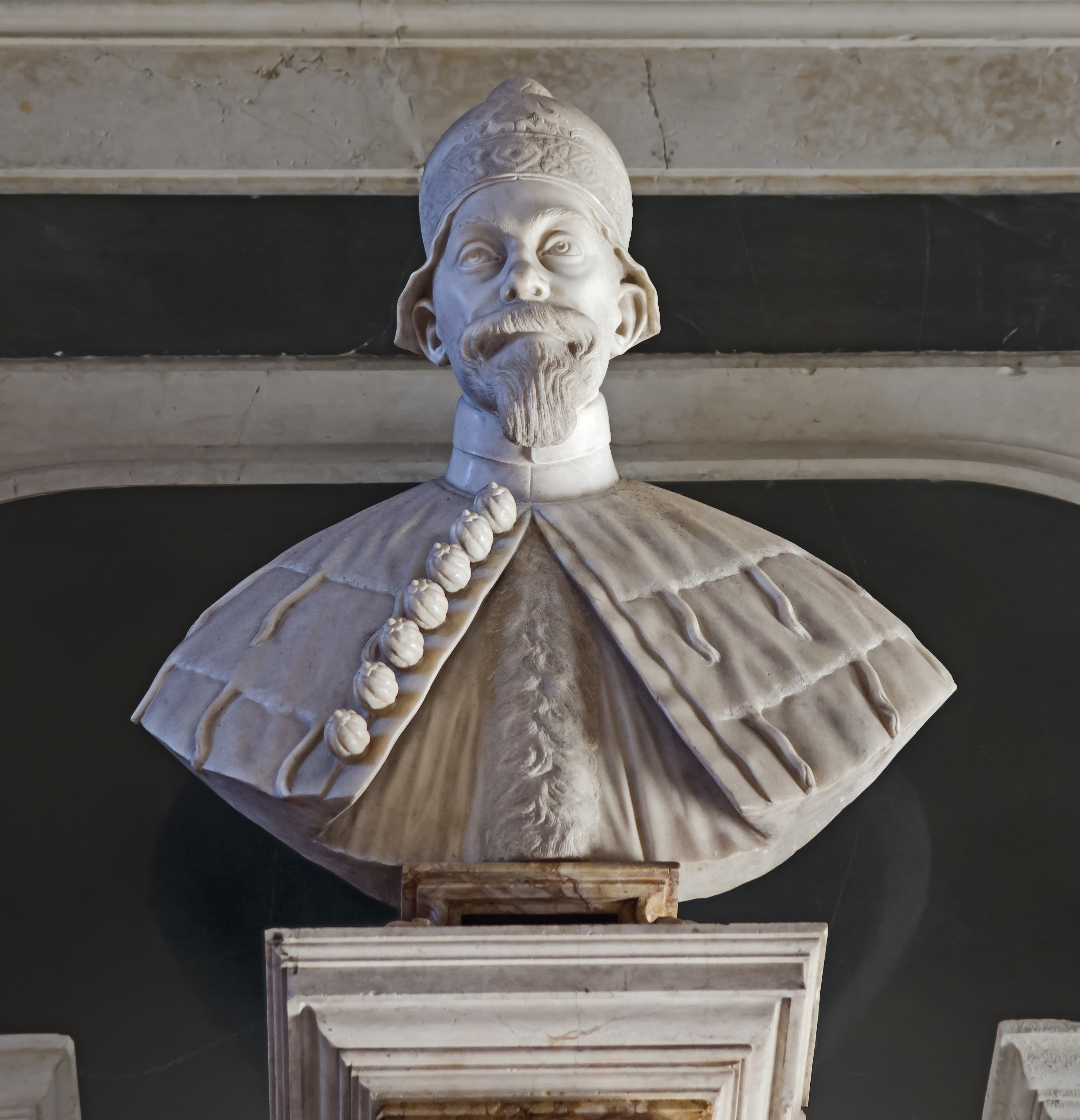 San Francesco della Vigna Venice, Chapel Contarini, bust of the Doge Francesco Contarini by Antonio Gai.